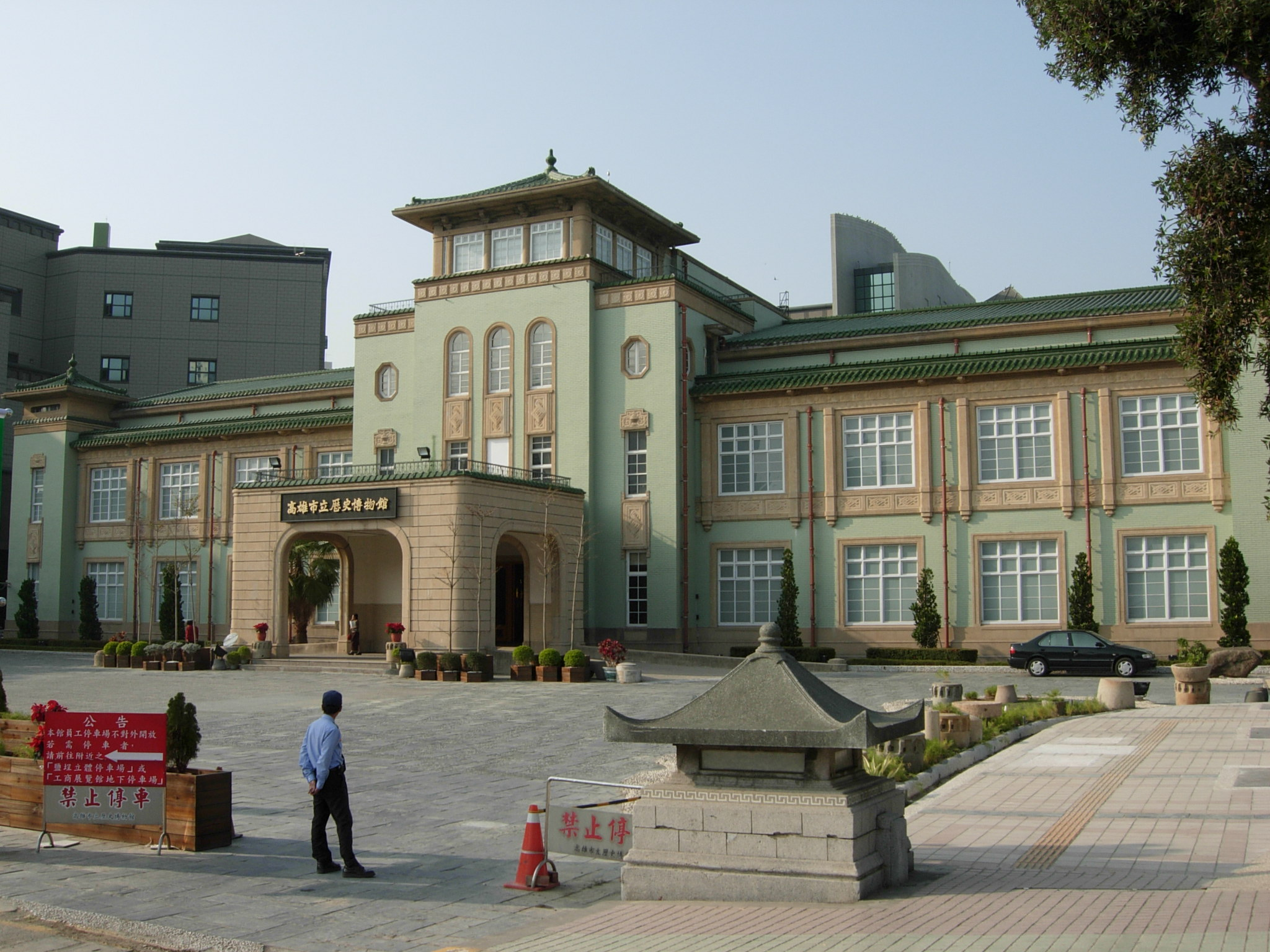 Kaohsiung Museum of History（Former Kaohsiung City Government Building） Bân-lâm-gú: Ko-hiông Tshī-li̍p Li̍k-sú Phok-bu̍t-kuán (í-tsá sī Ko-hiông-tshī Tsìng-hú pān-kong ê sóo-tsāi)